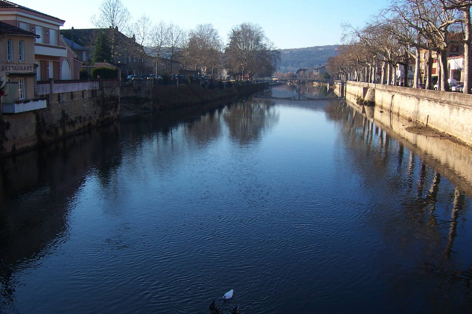 View of Célé river taken from bridge Gambetta at the center of town Figeac in Lot department, France.